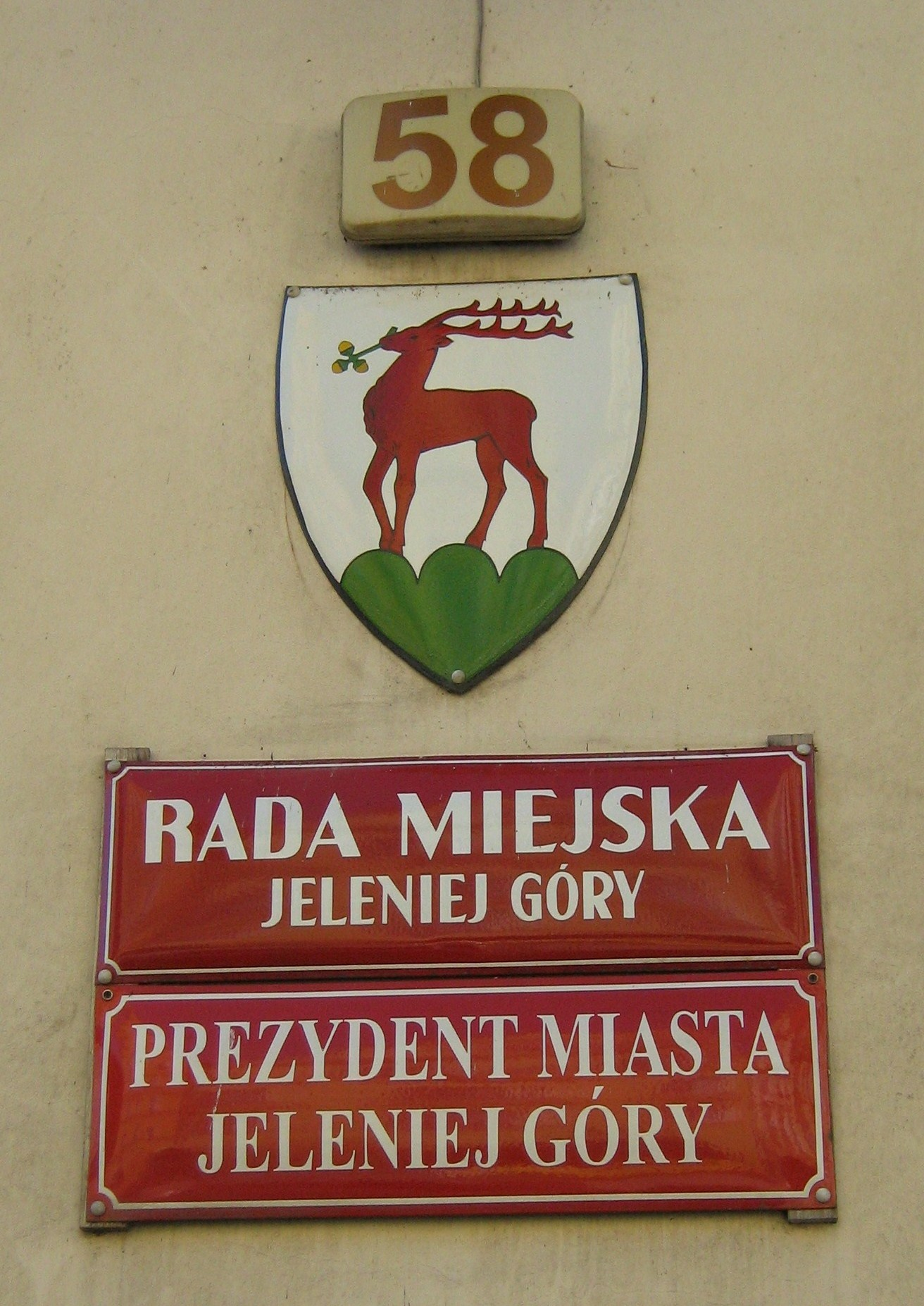 Signs on the City Hall in Jelenia Góra, Poland. September 29, 2010.